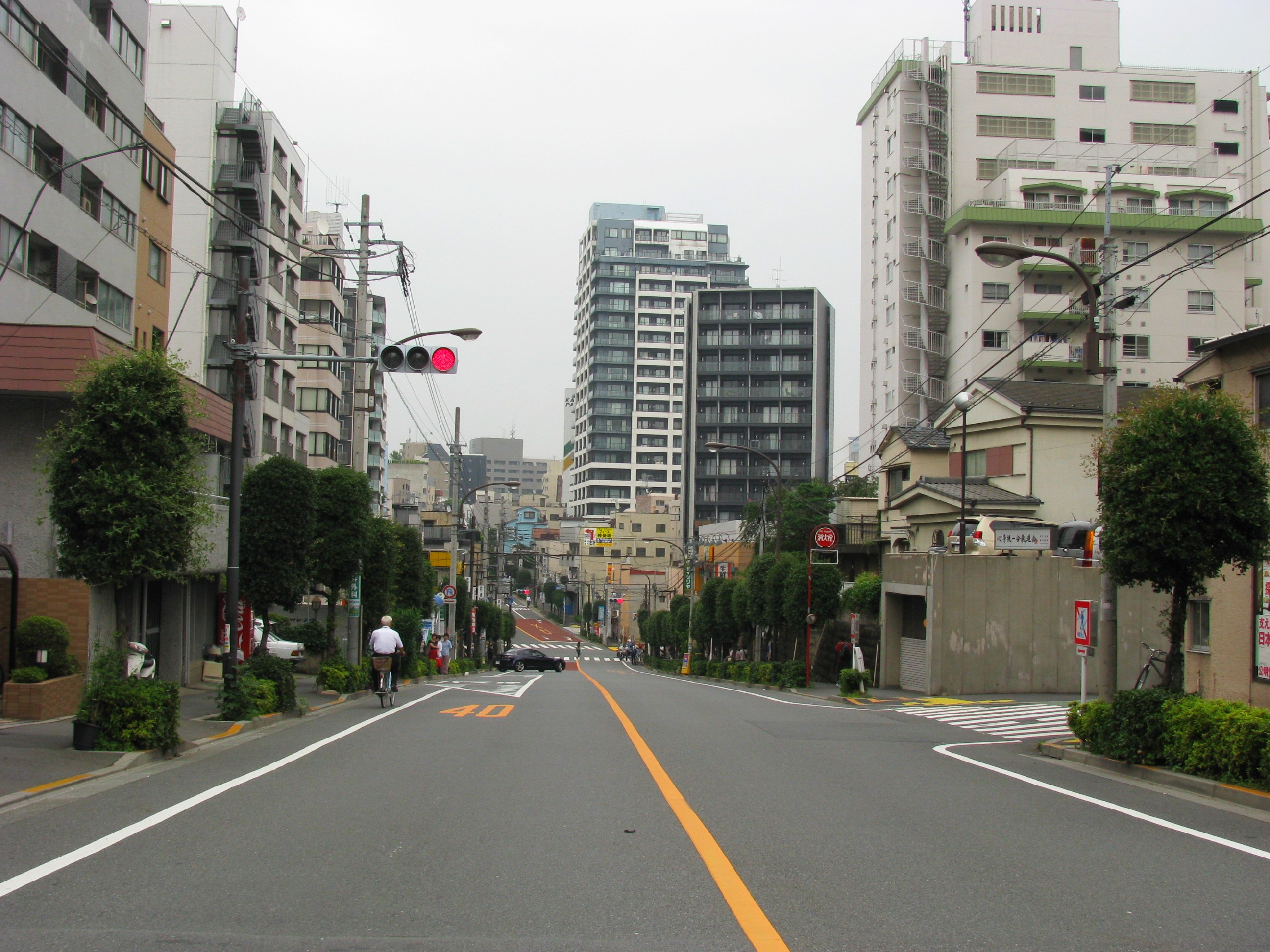 The Tokyo Prefectural Route 433. This location is Haramachi in Shinjuku, Tokyo, Japan.